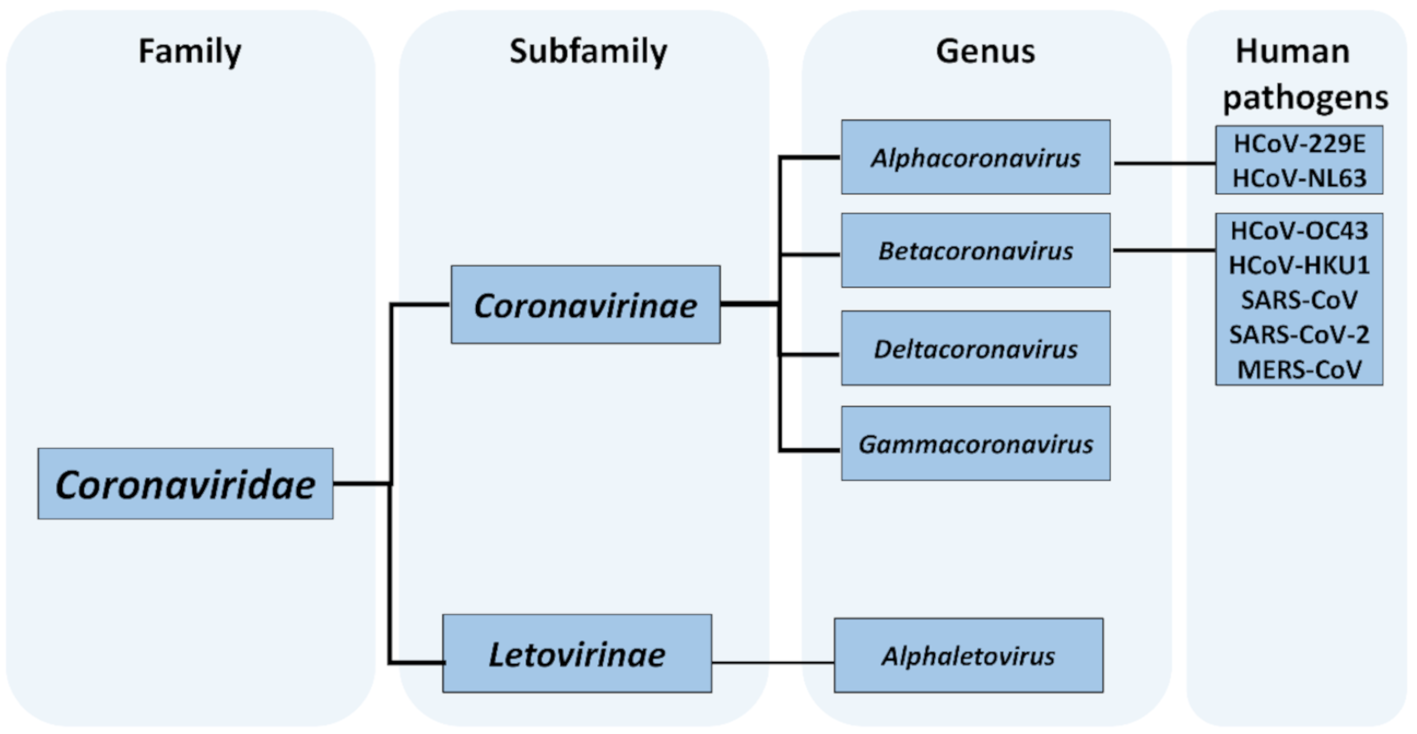 Taxonomy of Coronaviridae family with an indication of species known to be pathogenic to humans and cause respiratory diseases [33].